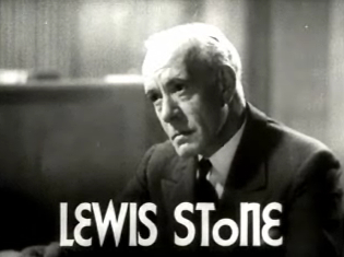 Cropped screenshot of Lewis Stone from the trailer for the film Woman Wanted (1935).